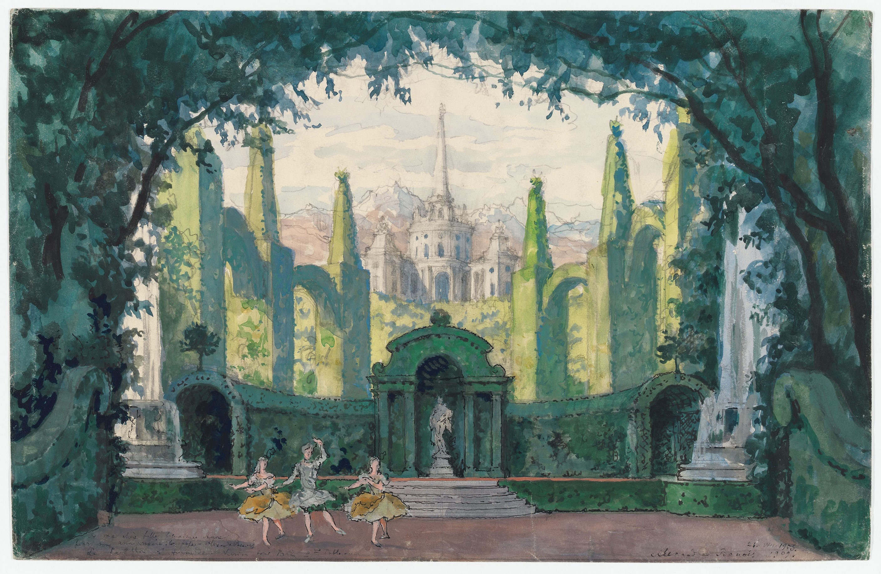 Set design by Alexandre Benois (1870-1960) for Pavillon d'Armide, garden for act II. Dated 1955. Watercolor, ink and pencil on paper ; 30 x 47.3 centimeters. Inscription at bottom: A ma chère fille bienamiée Anne pour son anniversaire de papa - Alexandre Benois 26. VIII. 1953 Le Pavillon d'Armide Version pour Paris II tableau. Alexandre Benois 1909. MS Thr 414.4 (33), Harvard Theatre Collection, Houghton Library, Harvard University